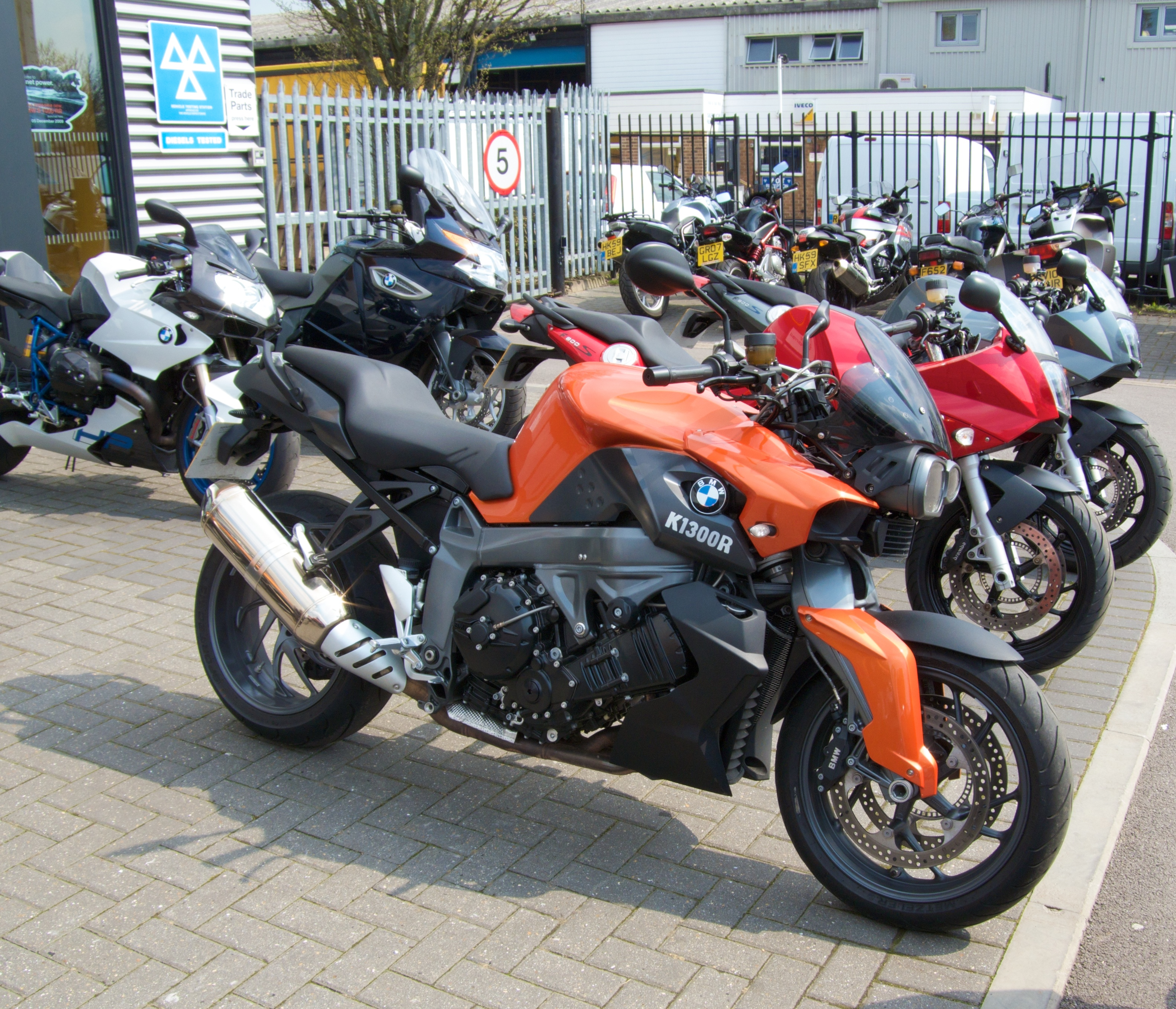 BMW K1300R motorcycle